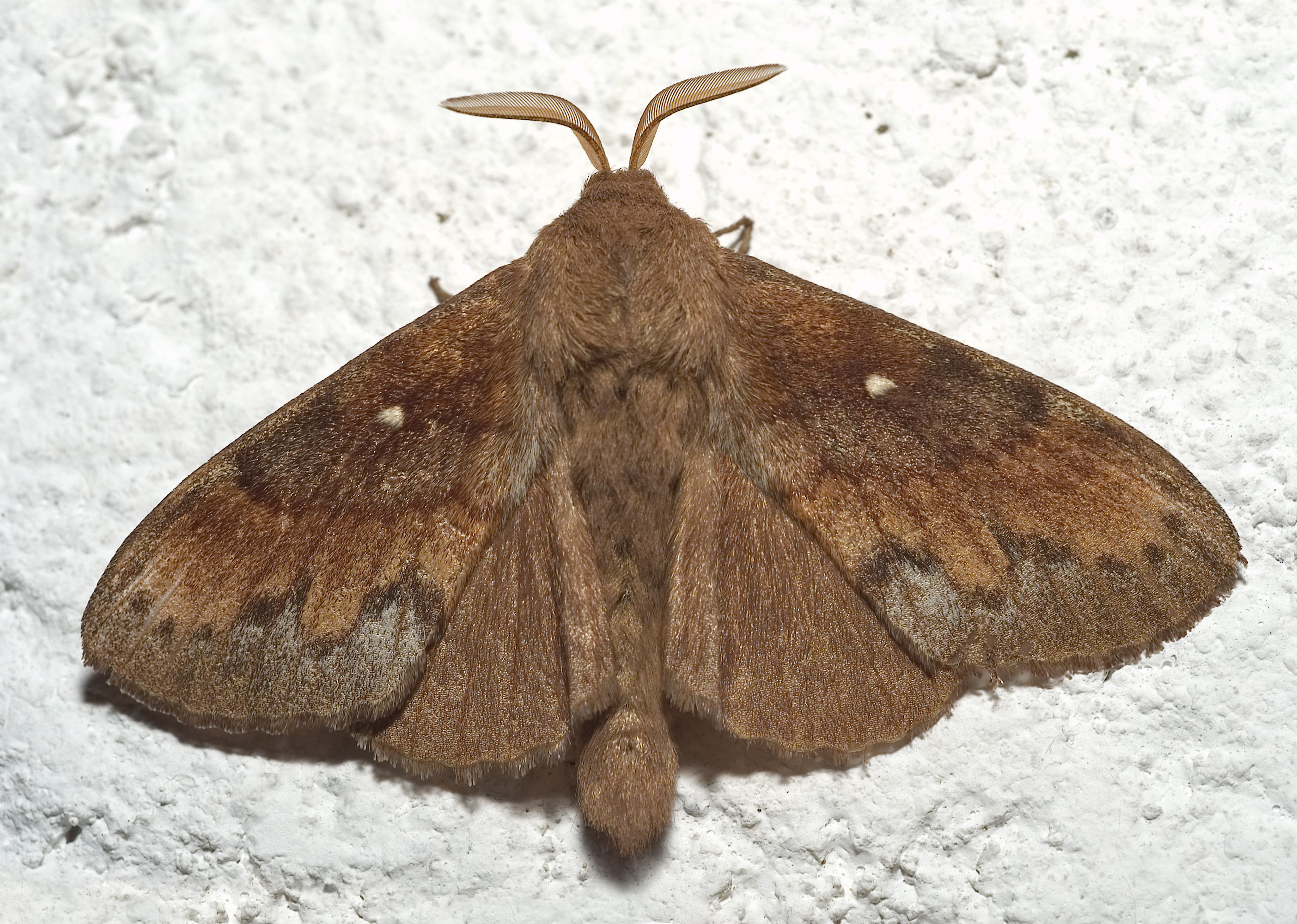 Please report references to kulacgmx.at.